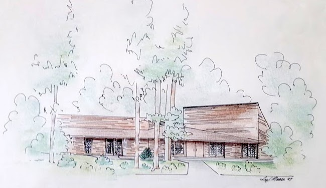 Profile image of Northwest UU Congregation